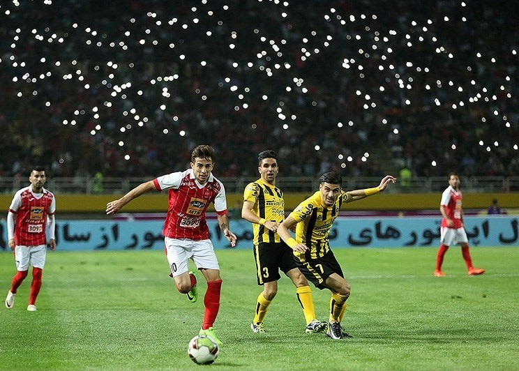 Farshad Ahmadzade in Persepolis–Sepahan rivalry.